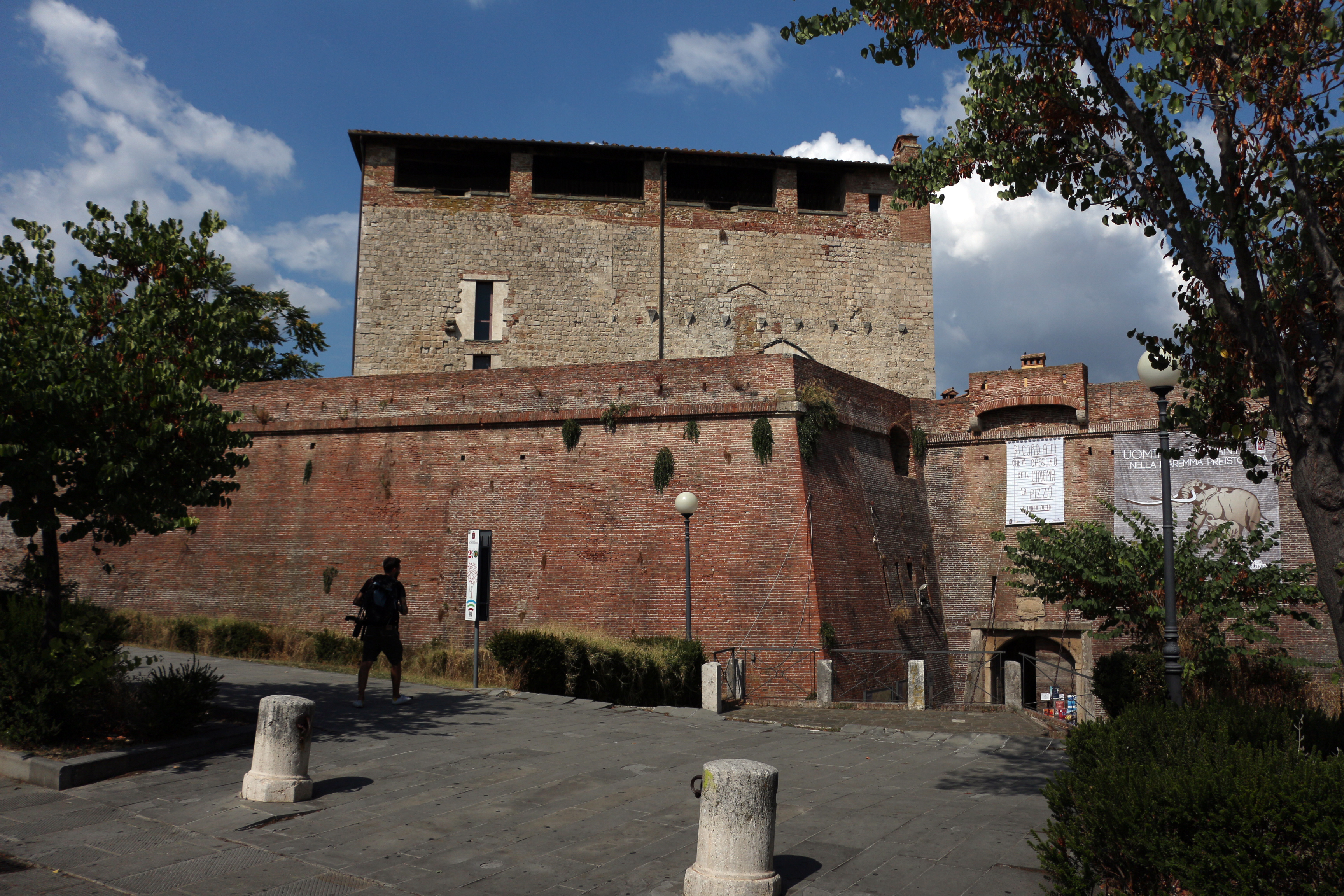 Grosseto